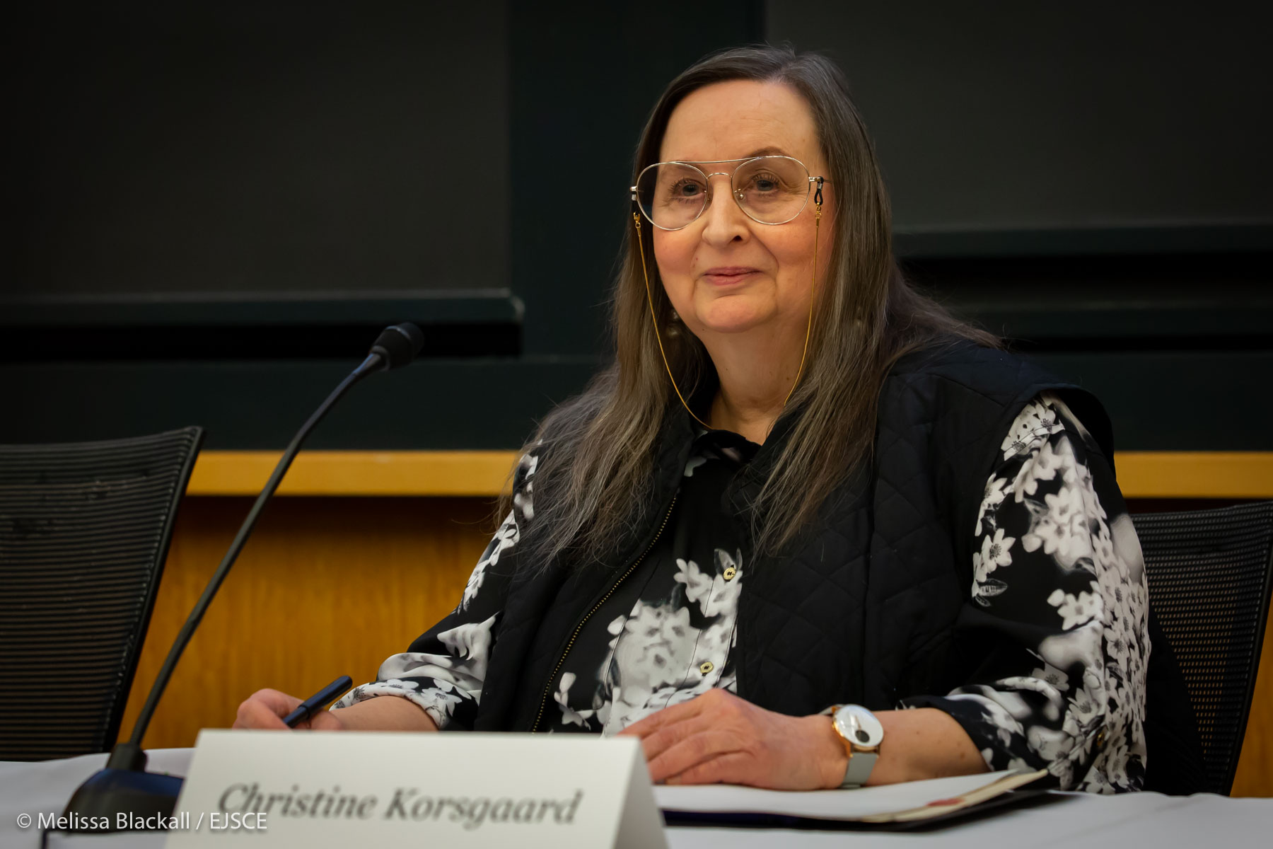 Inequality, Religion, and Society: John Rawls and After